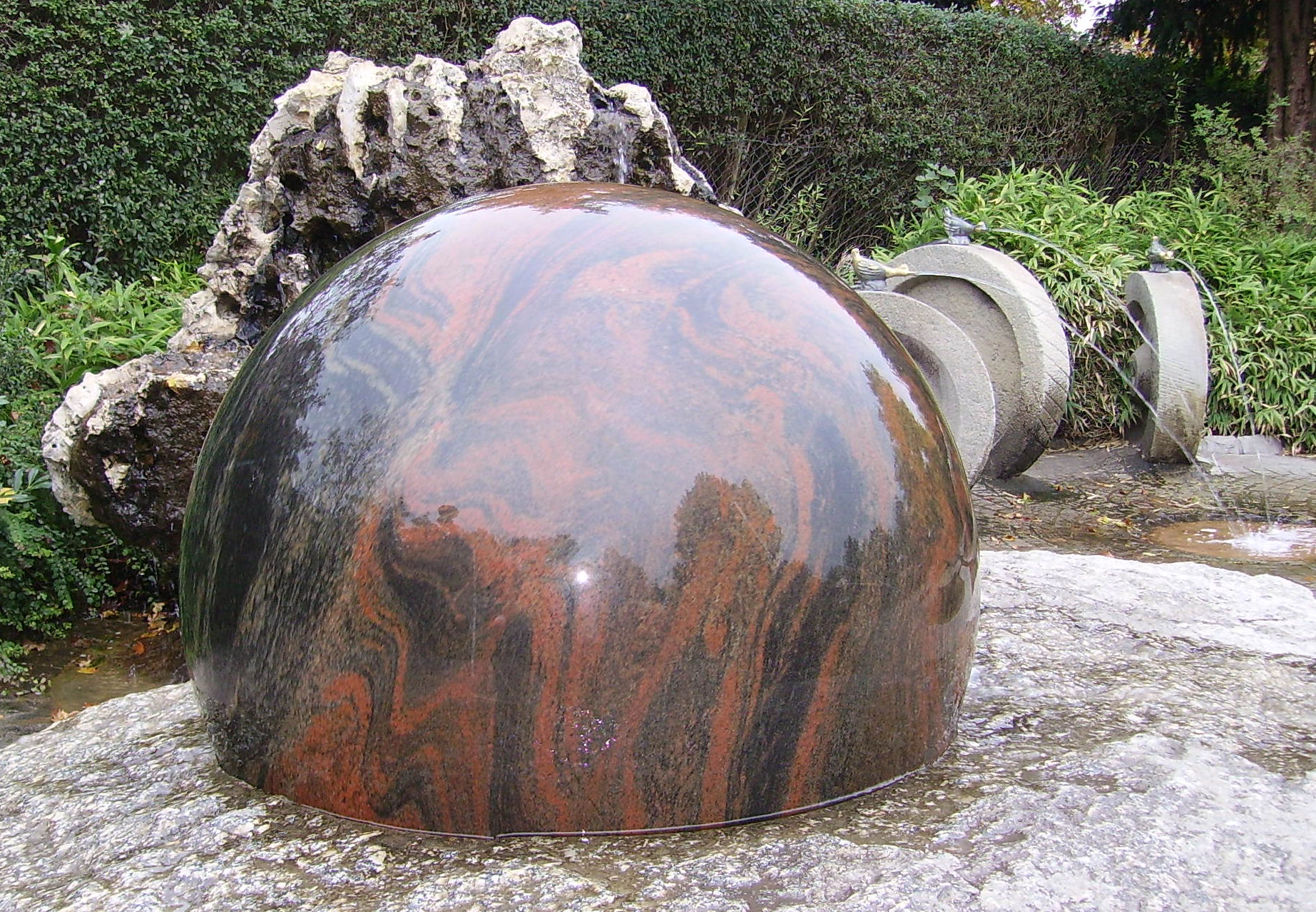 Leisure park Tripsdrill near Cleebronn in southern Germany. – Note: Probably no Granite, cf. filename / the stone kind is migmatite